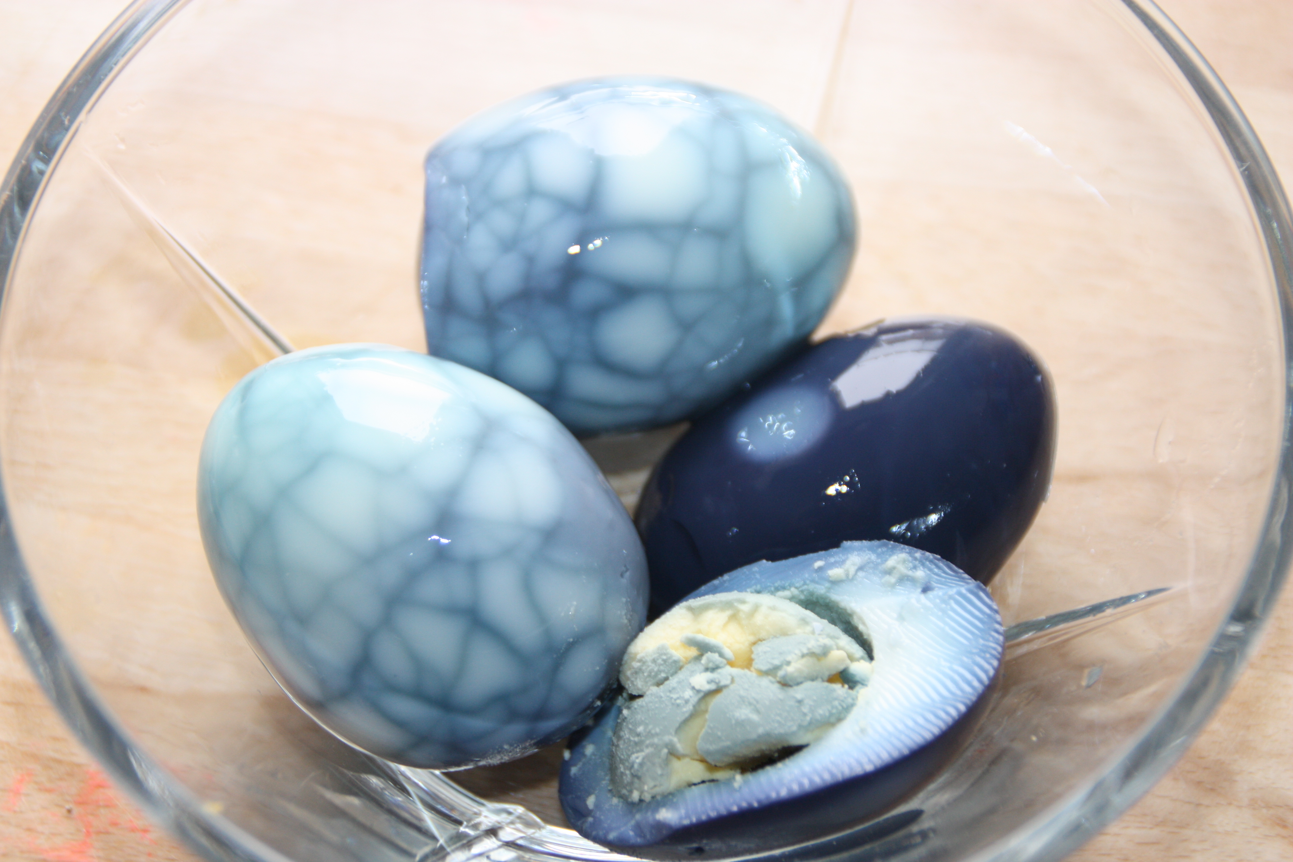 Danish pickled eggs dyed with red cabbage